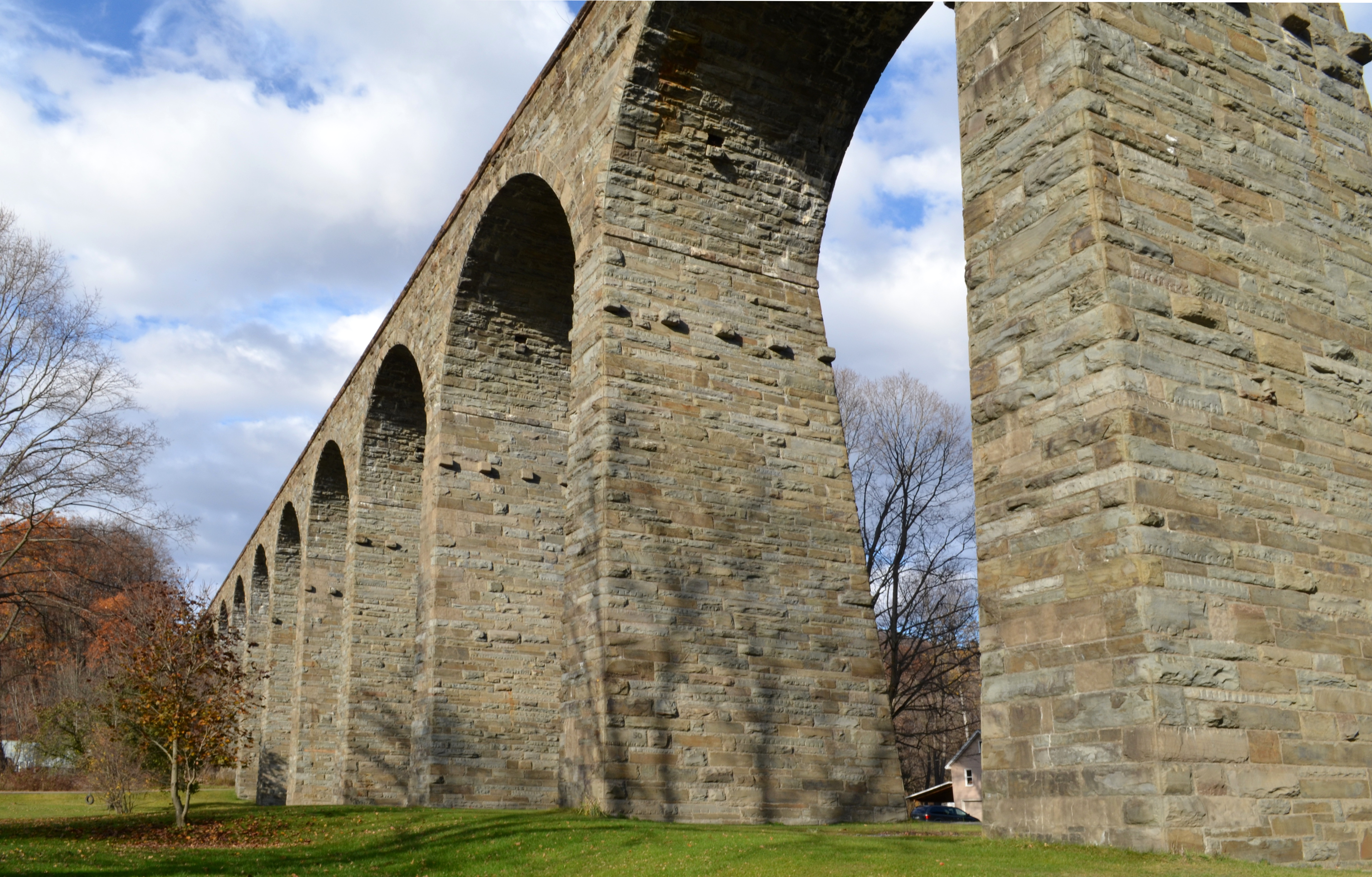 The Starrucca Viaduct in Lanesboro, Pennsylvania.